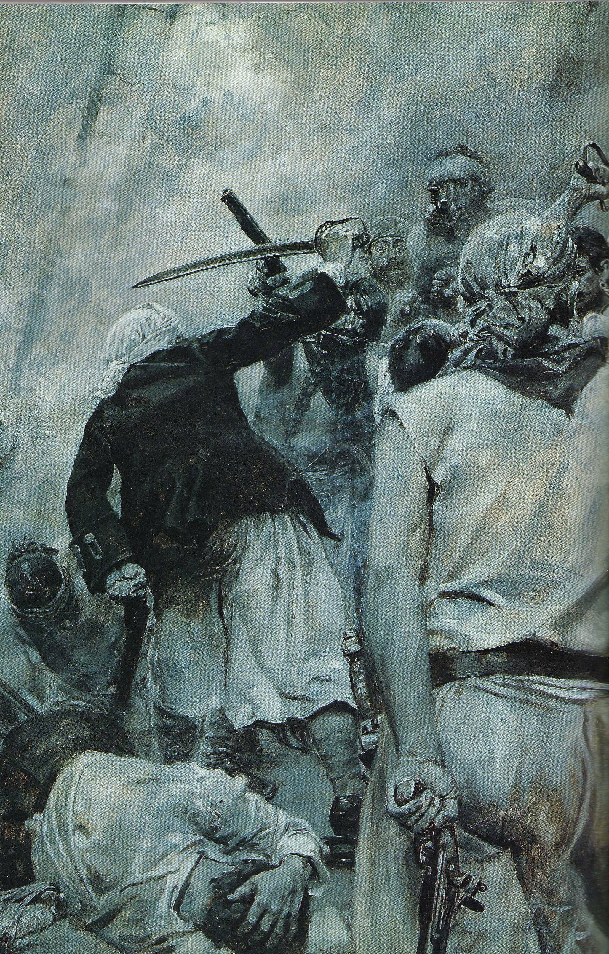 The Combatants Cut and Slashed with Savage Fury: Blackbeard and his gang engage in a savage fight on the deck of a ship. This was originally published in Pyle, Howard (1894) Jack Ballister's Fortunes, The Century Company The oil painting, which the illustration was of, was sold in 1895 under the title Blackbeard's Last Fight, and is currently part of the Delaware Art Museum's collection.[1][2]